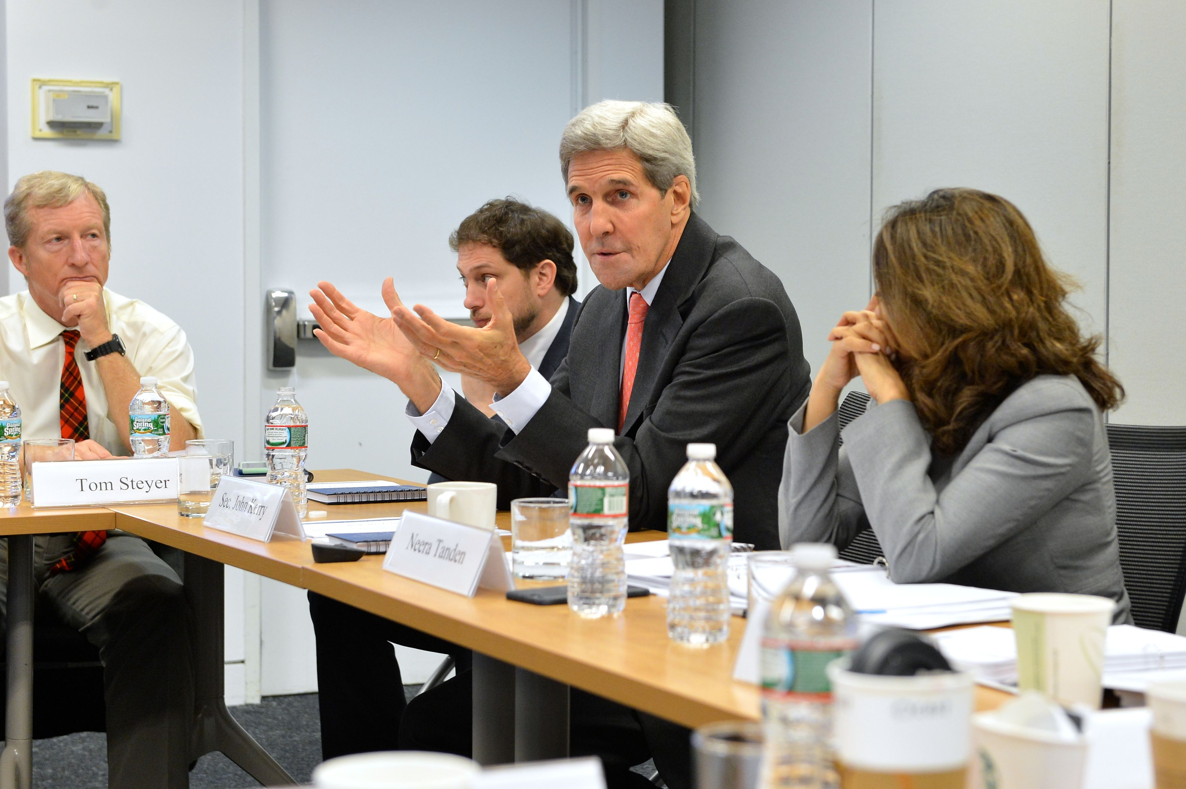 U.S. Secretary of State John Kerry delivers remarks at a Center for American Progress Board Meeting in Washington, D.C., on October 20, 2015. [State Department photo/ Public Domain]